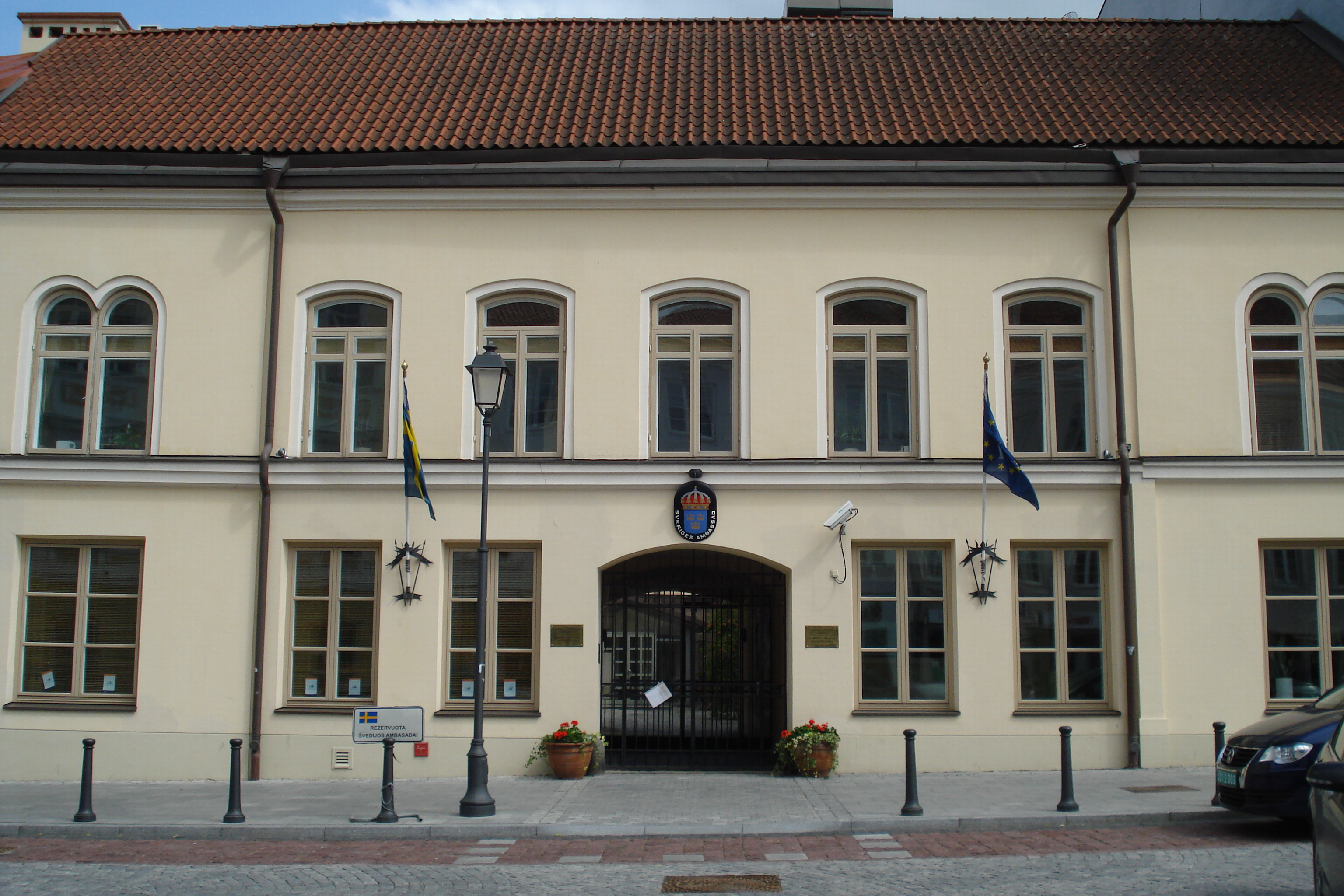 Swedish embassy in Vilnius, Lithuania. Didžioji g. 16